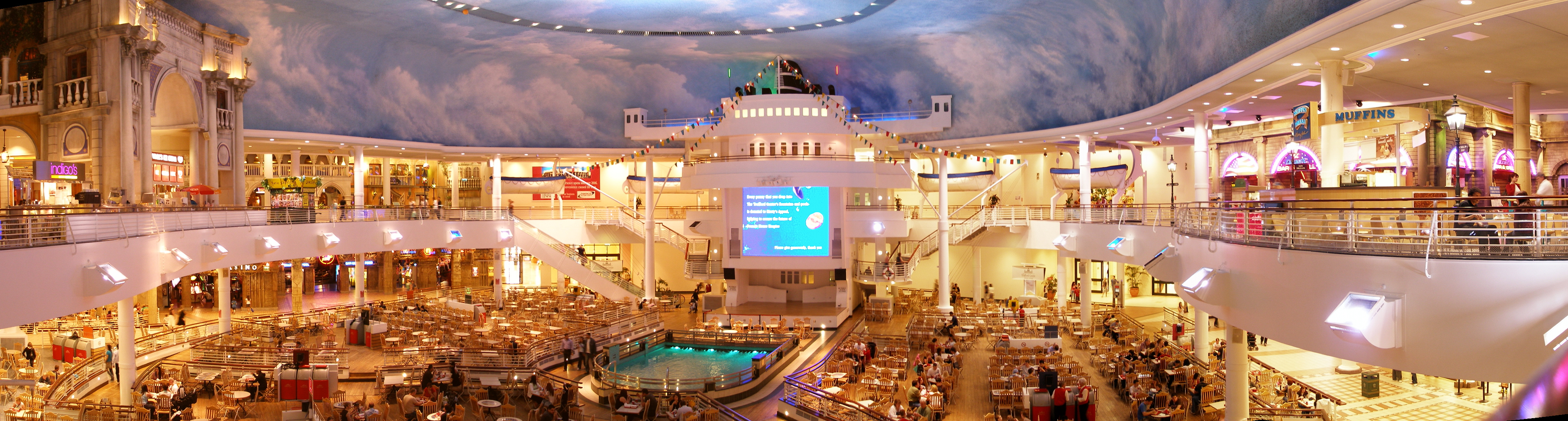 Image of the Orient in the Trafford Centre, Manchester, England